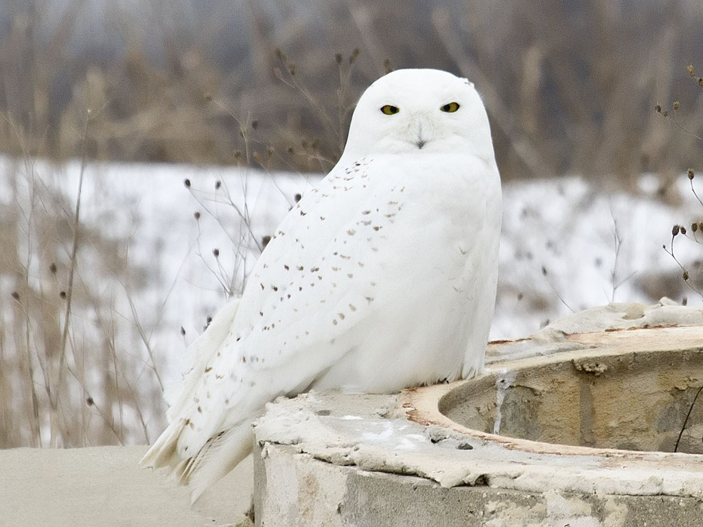 Adult male Snowy Owl Bubo scandiacus, Muskegon Co., Michigan, USA.